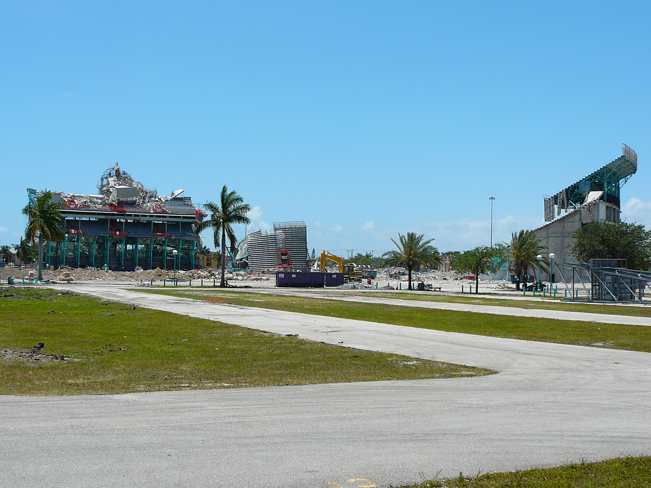 Last remaining pieces of Miami Orange Bowl stadium before being completely destroyed in May 2008.